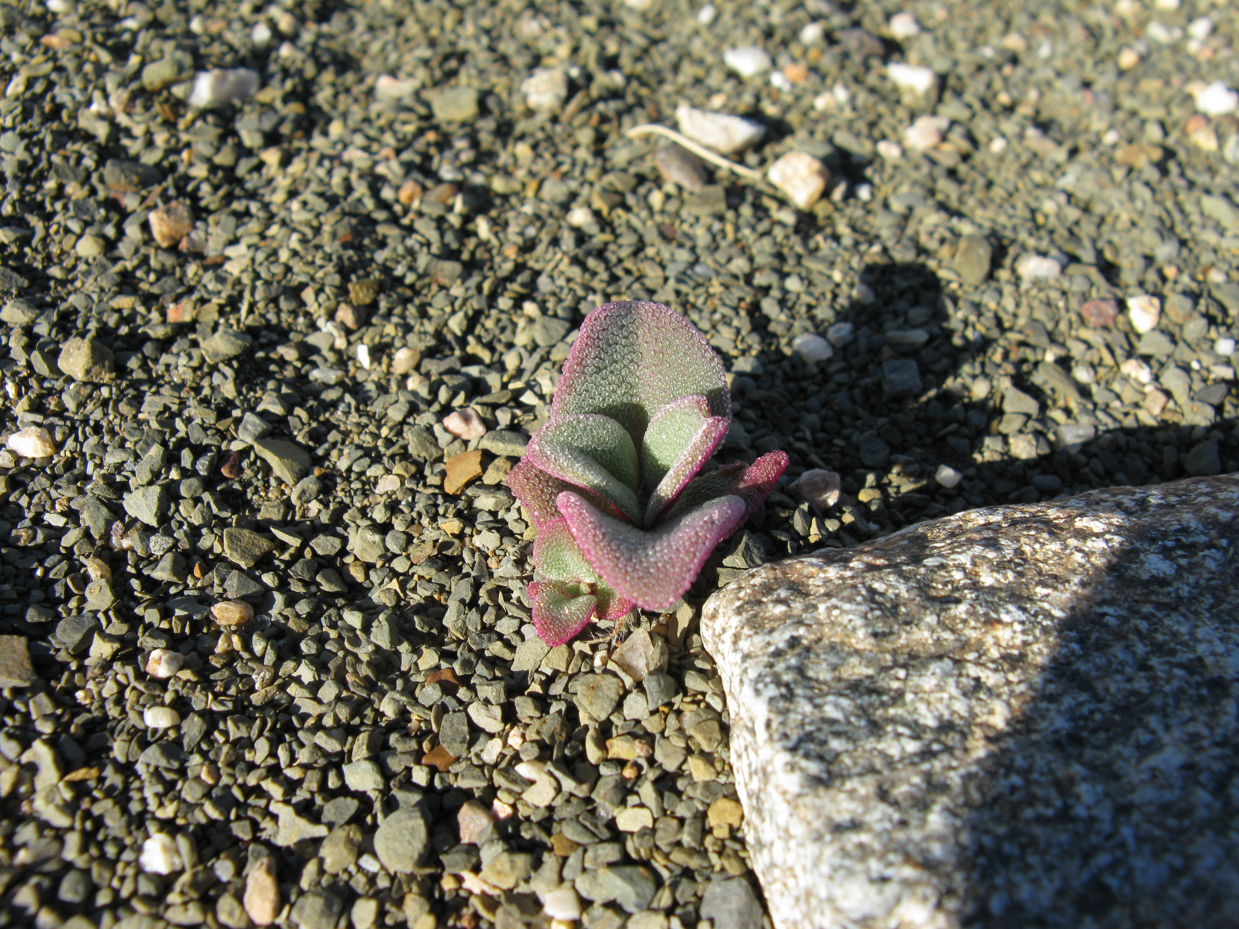 Mesembryanthemum guerichianum seedling, showing bladder cells. One of the species known as "ice plants" because of the appearance of the bladder cells.